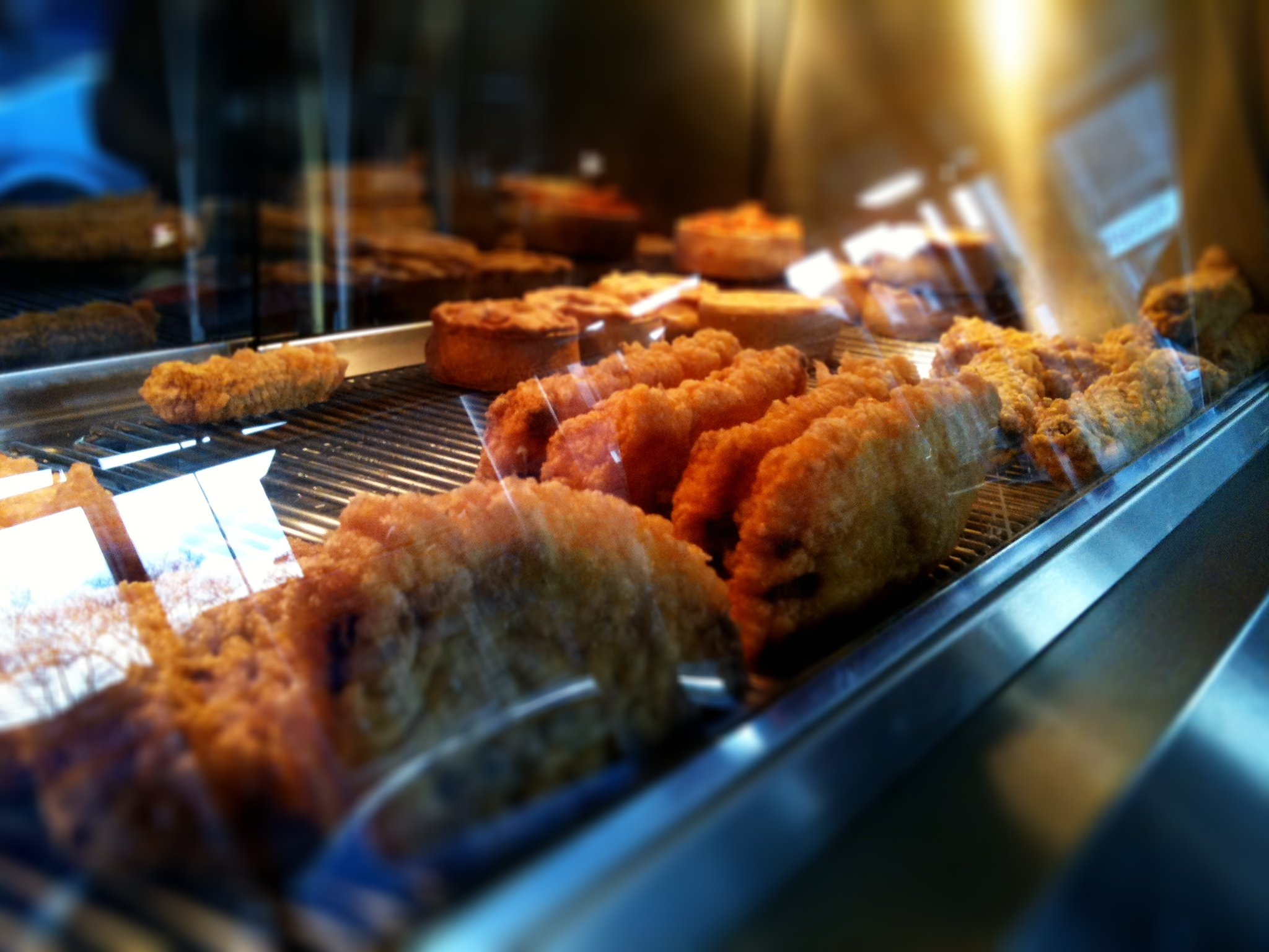 The interior of a hot cabinet of a Scottish fish and chip shop, showing food items deep fried in batter; photographed at Mr Chips, Mannofied, Aberdeen